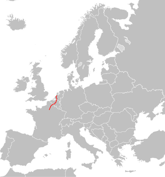 The European route 19